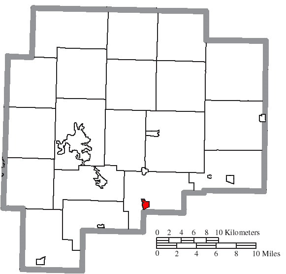 Map of the municipal and township boundaries of Guernsey County, Ohio, United States, as of the 2000 census, with the location of the village of Senecaville highlighted. Township borders are shown only in unincorporated areas in order to differentiate incorporated and unincorporated areas more clearly.